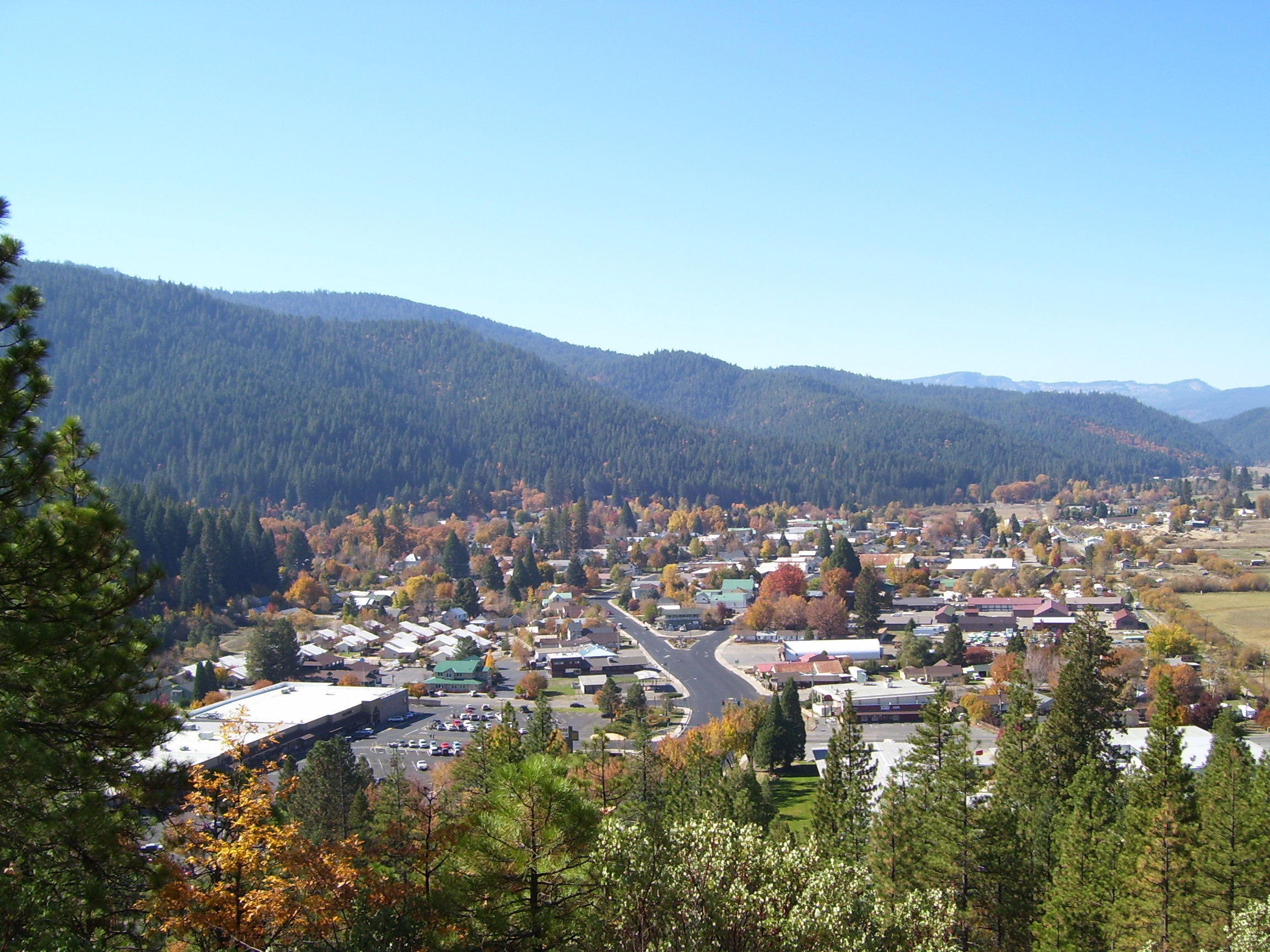 Photo taken by Kenneth Green of Quincy, California on October 20, 2013.